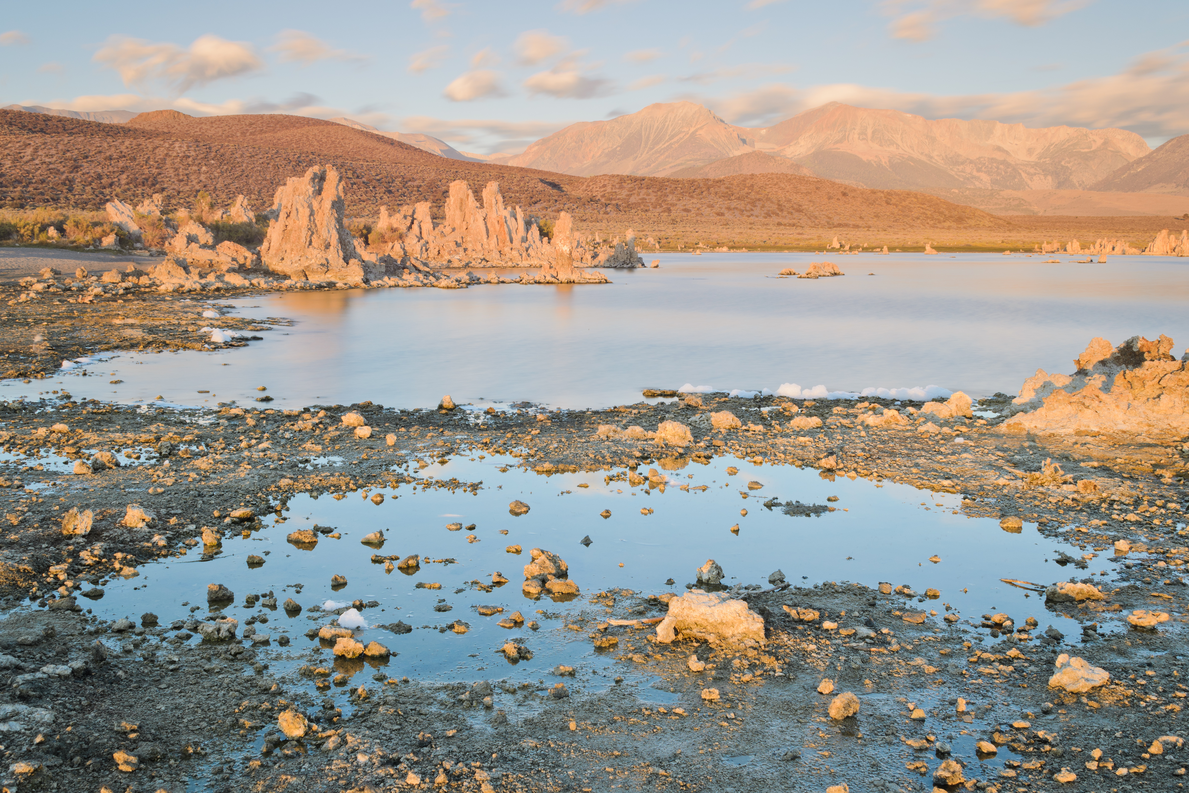 South Tufa, Mono Lake. Mount Gibbs and Mount Dana in the backgrounds.